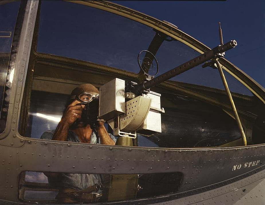 Jesse Rhodes Waller, AOM3c, tries out a 30-calibre machine gun he has just installed in a U.S. Navy Consolidated PBY Catalina at Naval Air Station Corpus Christi, Texas (USA), in August 1942.